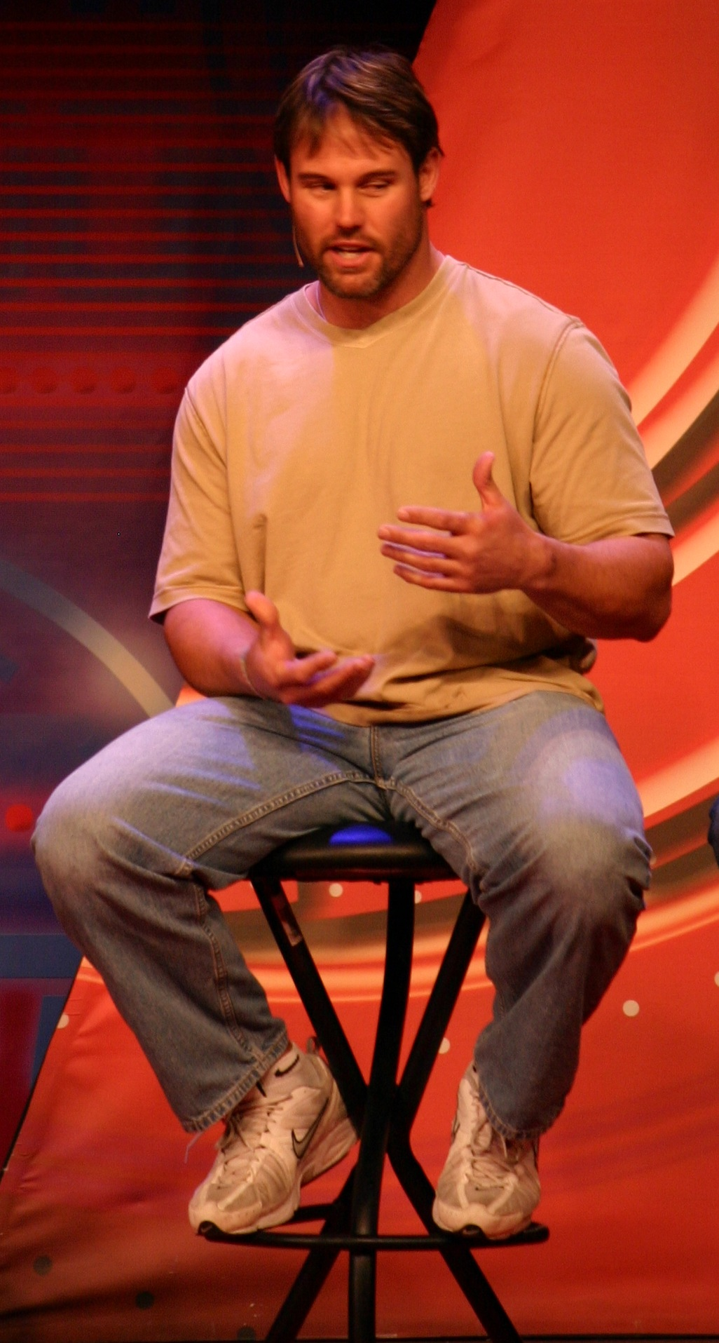 Mike Greenberg, Mike Alstott and Thurman Thomas at Inside the Huddle - Running Back Edition at the Premiere Theater during ESPN the Weekend, February 26, 2010